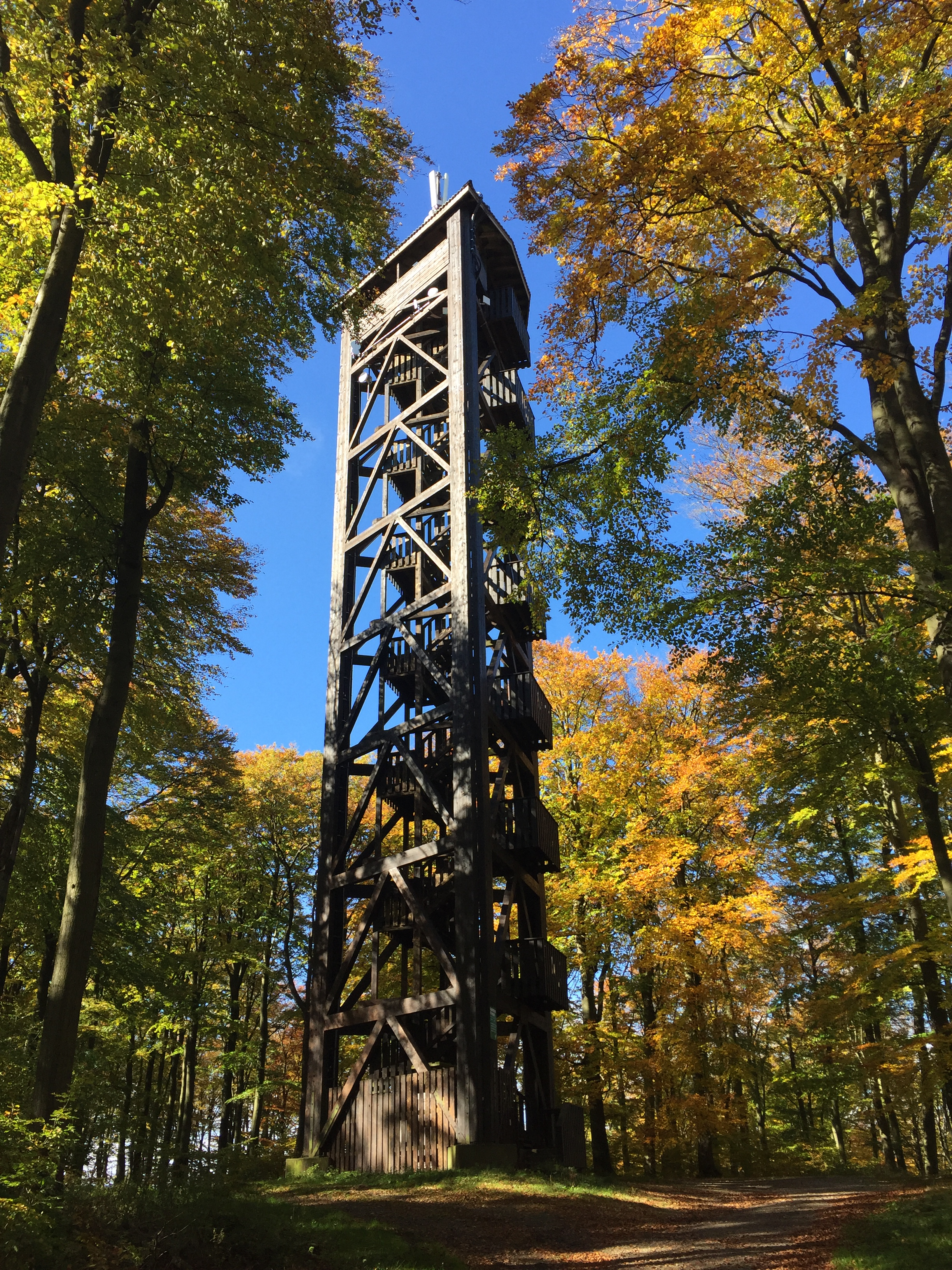 The Pferdskopf is a 662.6 meter high mountain. At his summit was formerly a 18 meter high tower from 1895 to 1960 made from steel. The current tower is 34 meter high made from wood in the year 1987. At his bottom you will find a rest area.